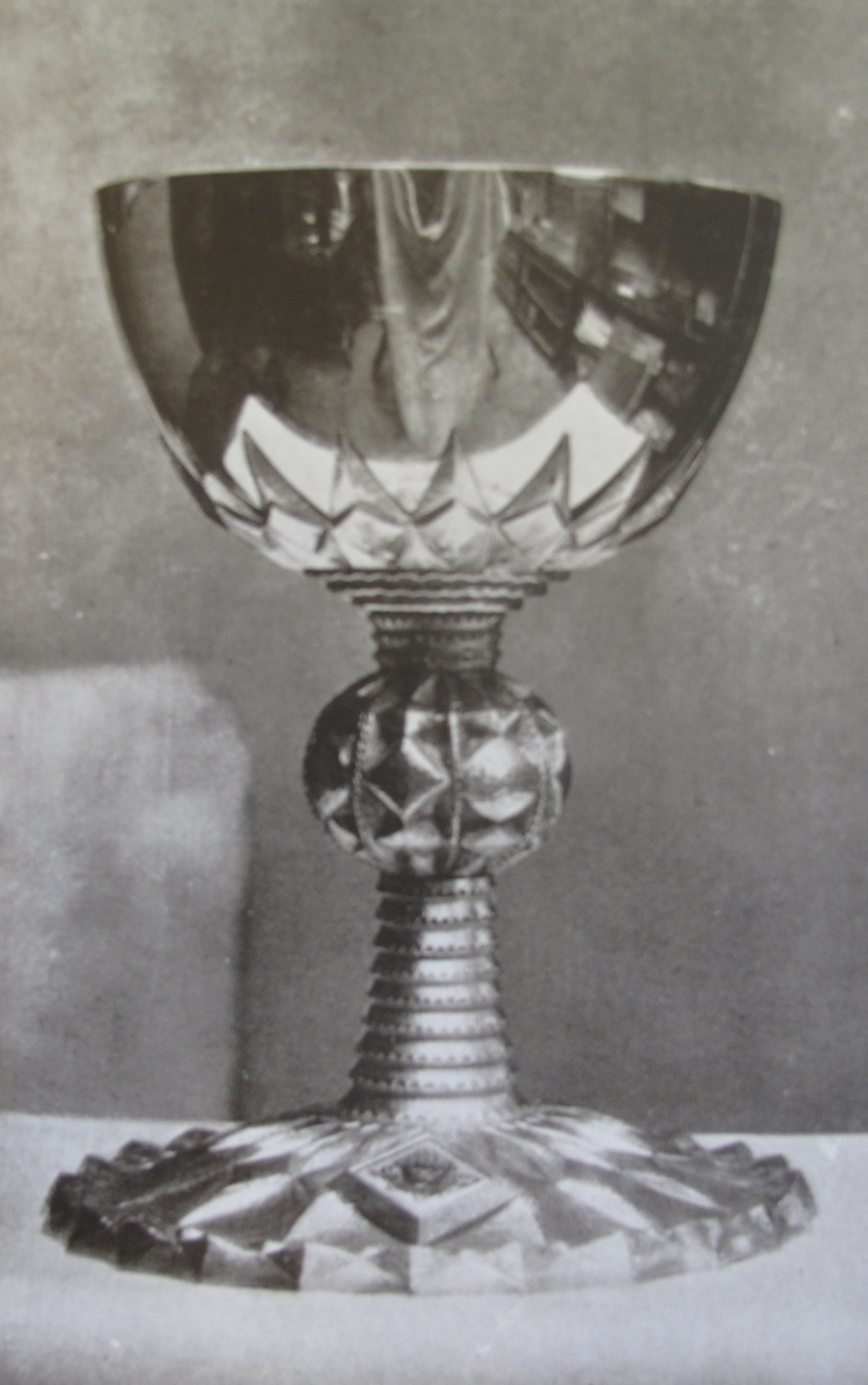 Calze d'argent i or amb esmalts de Ramon Sunyer